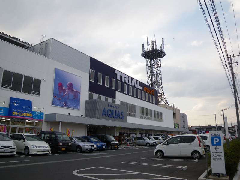 Sosui Square AQUAS is a shopping mall in Nasushiobara, Tochigi, Japan.